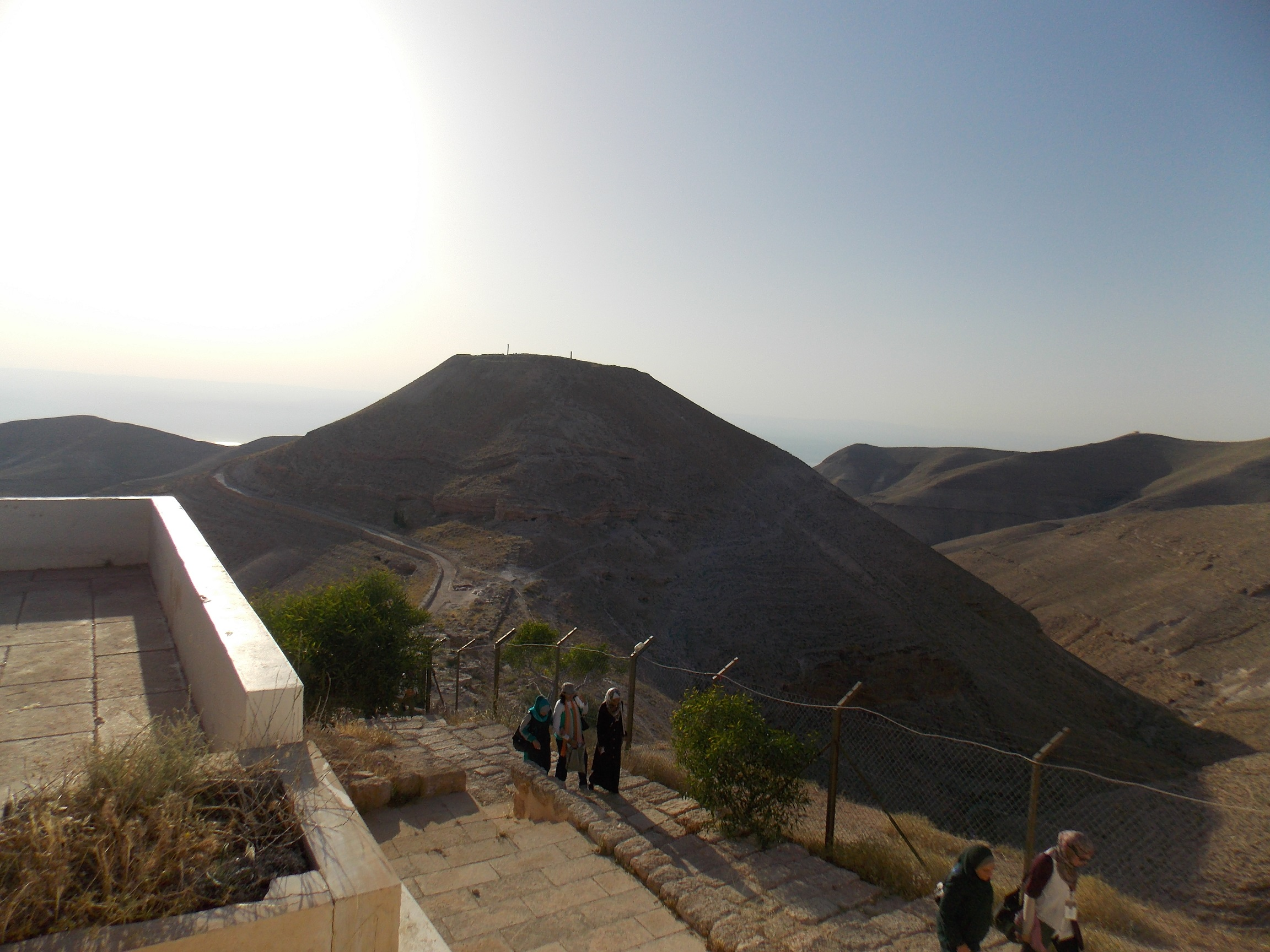 Photos form WEP hackathon and outdoor activities, Amman. May 2014.